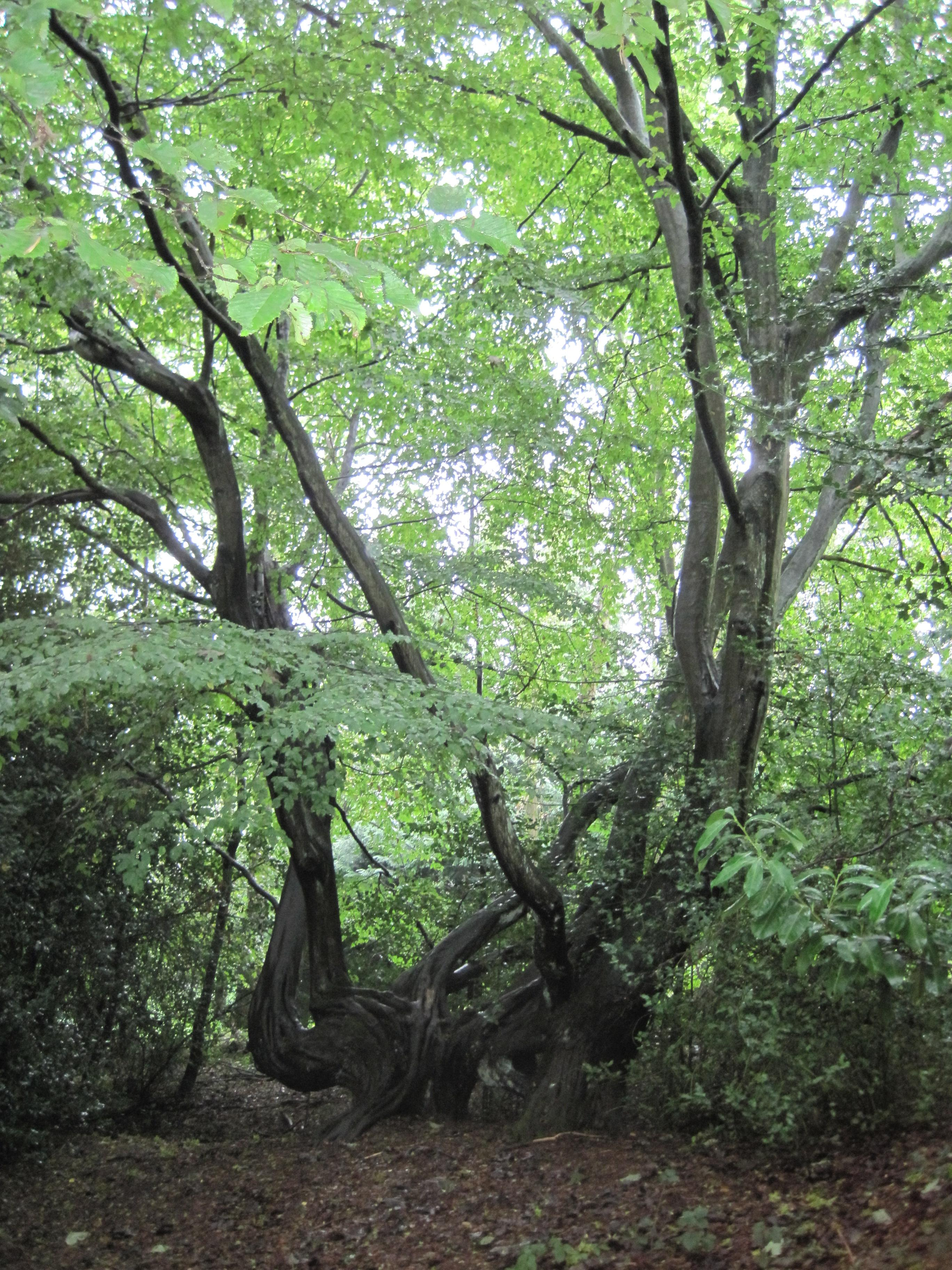 Hornbeam tree in Barnet Gate Wood, Arkley, Barnet, London